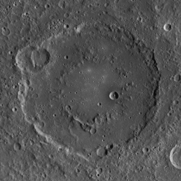 Holst crater, on Mercury. MESSENGER Wide Angle Camera mosaic. Image is approximately 222 km wide.